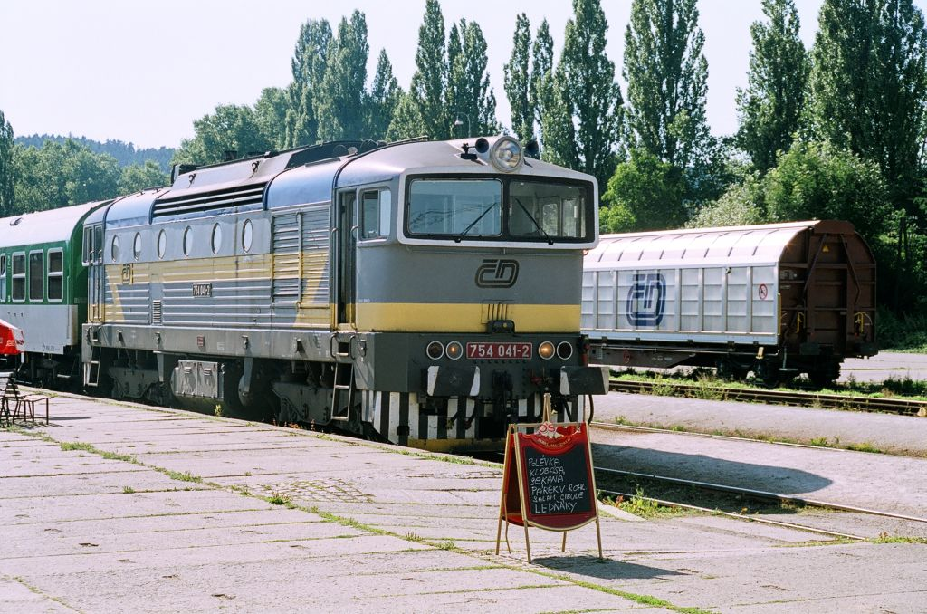 Subject: Class 754 (ex T 478.4) diesel engine used in the Czech Republic and Slovak Republic and former Czechoslovakia. Photo taken in Okříšky railway station, July 2006 Author: Ing. Boleslav Vrany